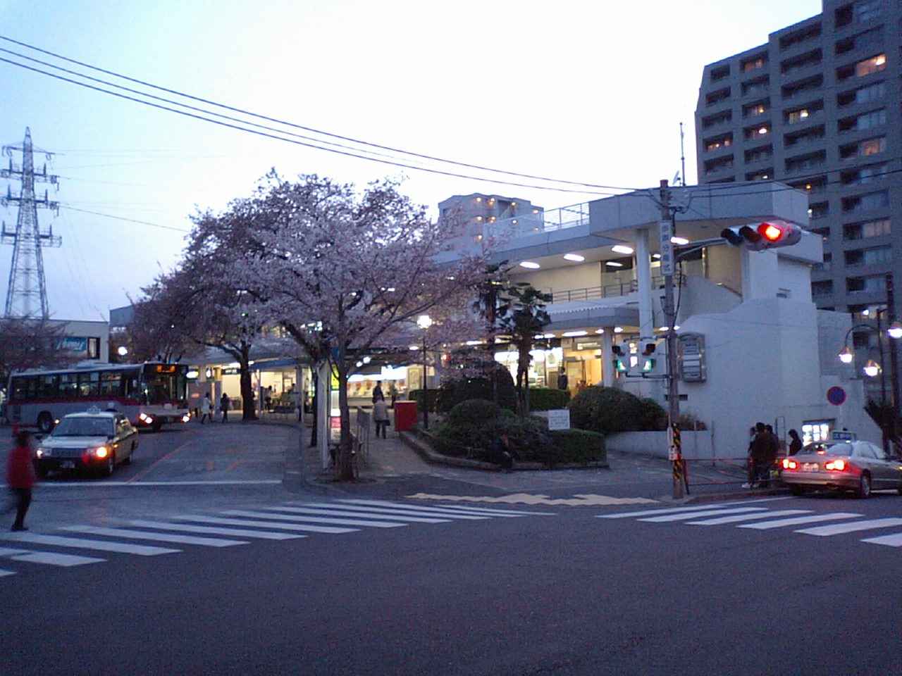 Front of Saginuma Station.